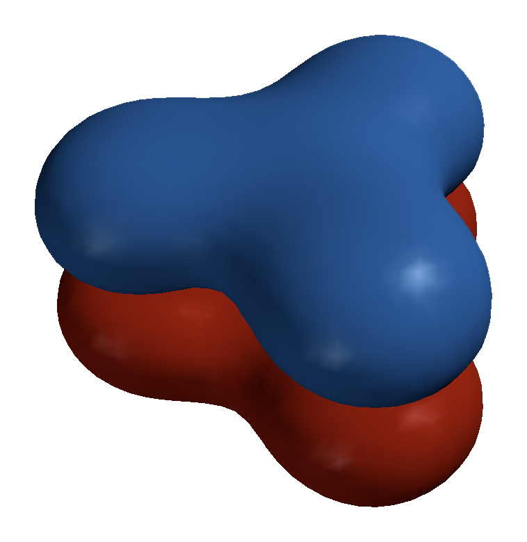 Space-filling model of the HOMO−5 of boron trifluoride, BF3 - the lowest energy pi bonding molecular orbital. Structure calculated and image produced using HF/6-31G* in Spartan '04 Student Edition.